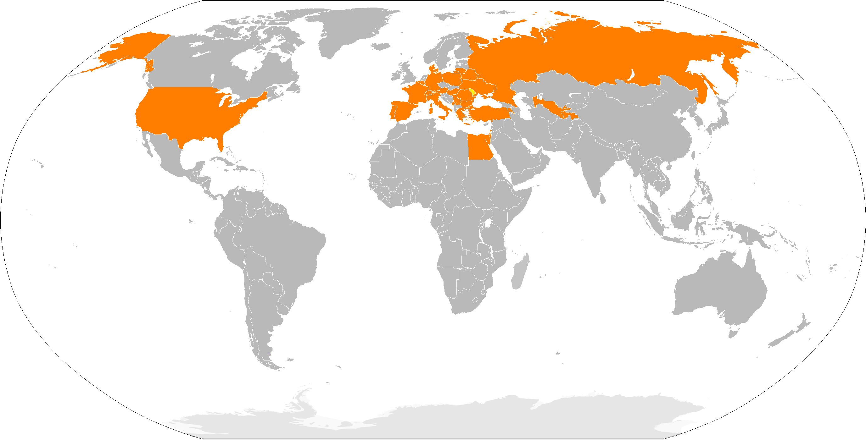 Orange PrePay roaming Moldova Countries where PrePay roaming is available